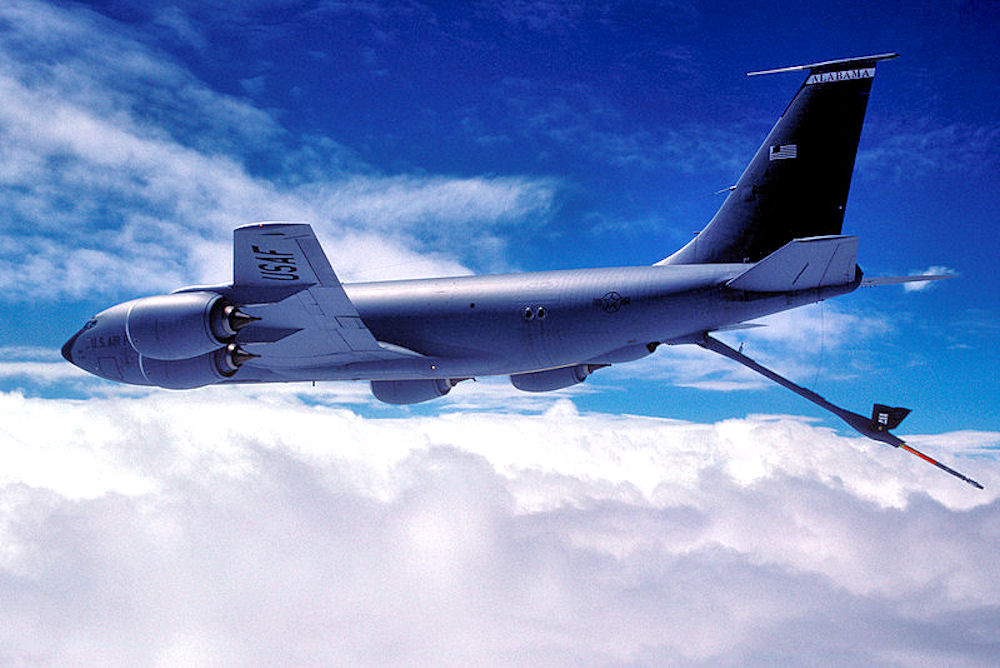 106th Air Refueling Squadron KC-135 Stratotanker